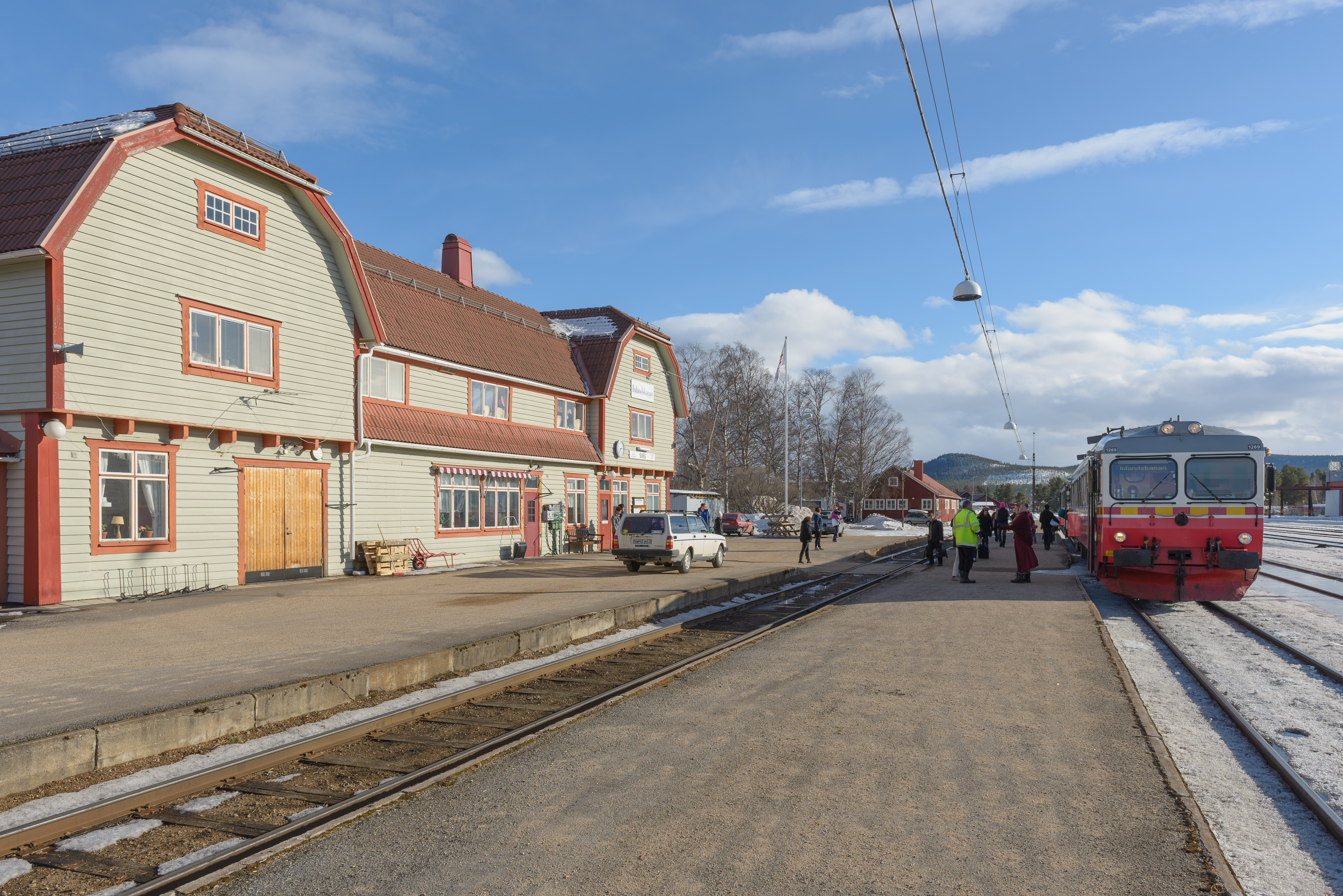 Y1-train from Inlandsbanan at Sveg station, Härjedalen.